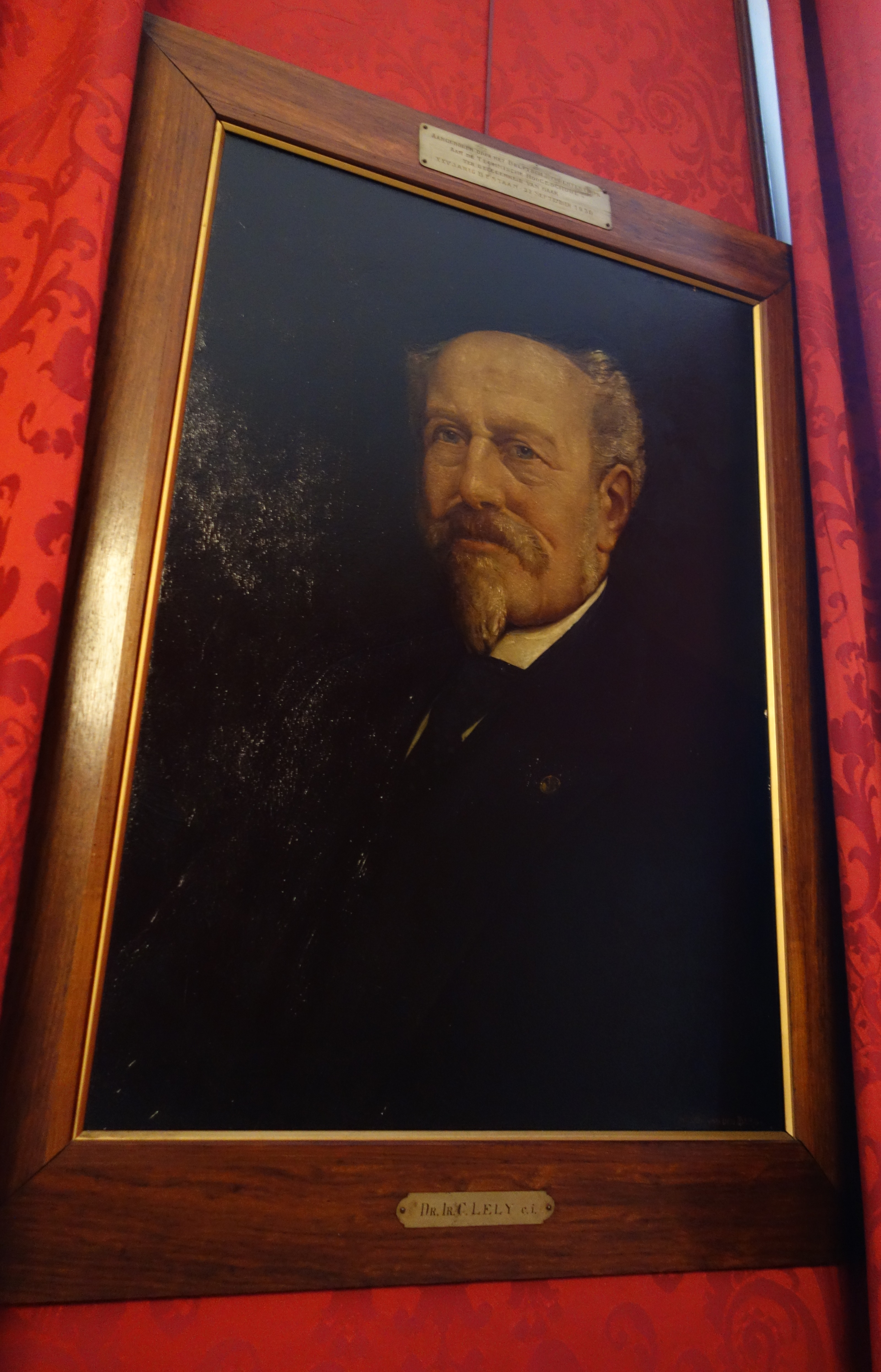 Painting of Cornelis Lely. Institute for Water Education, Delft